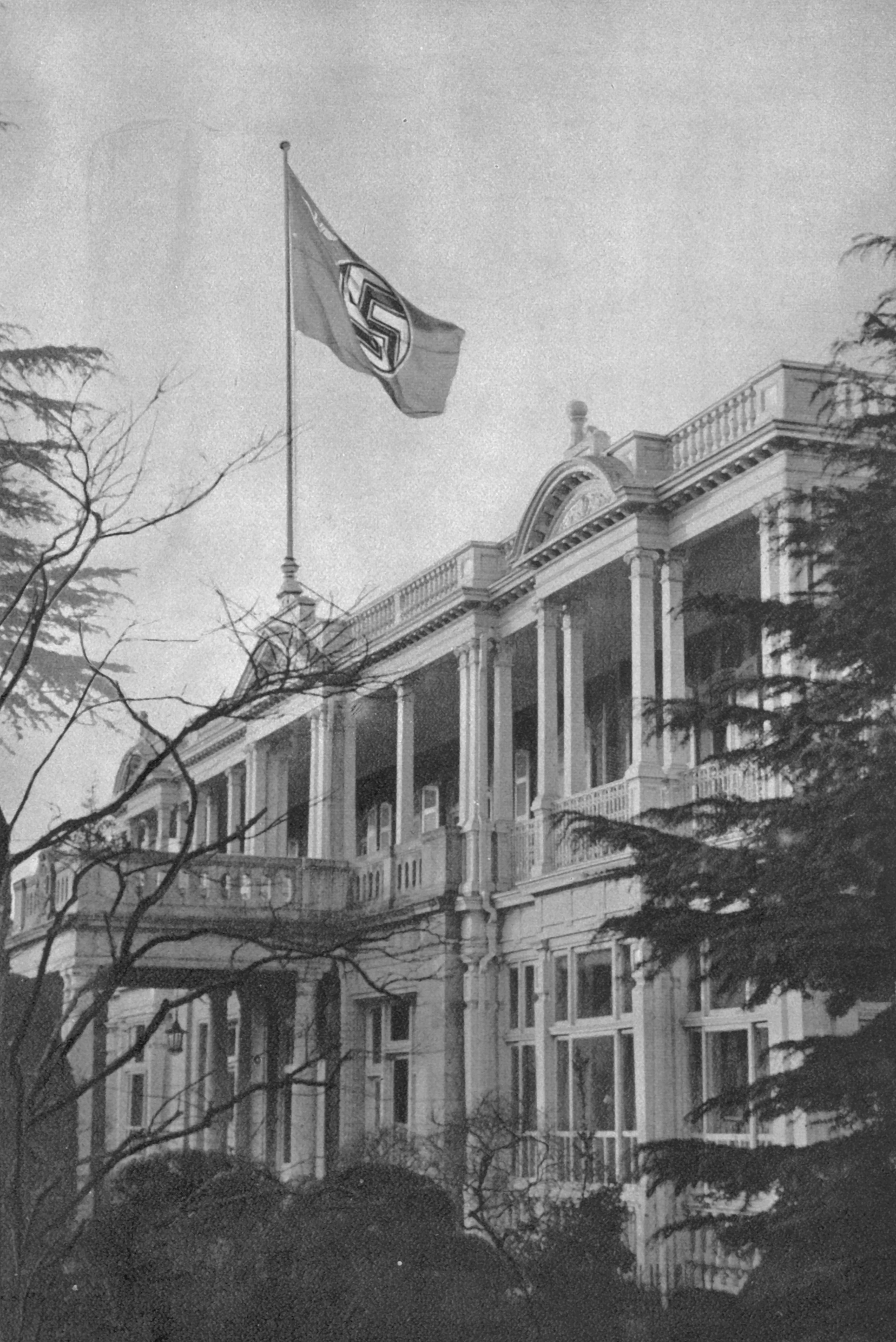 German embassy Tokyo about 1940